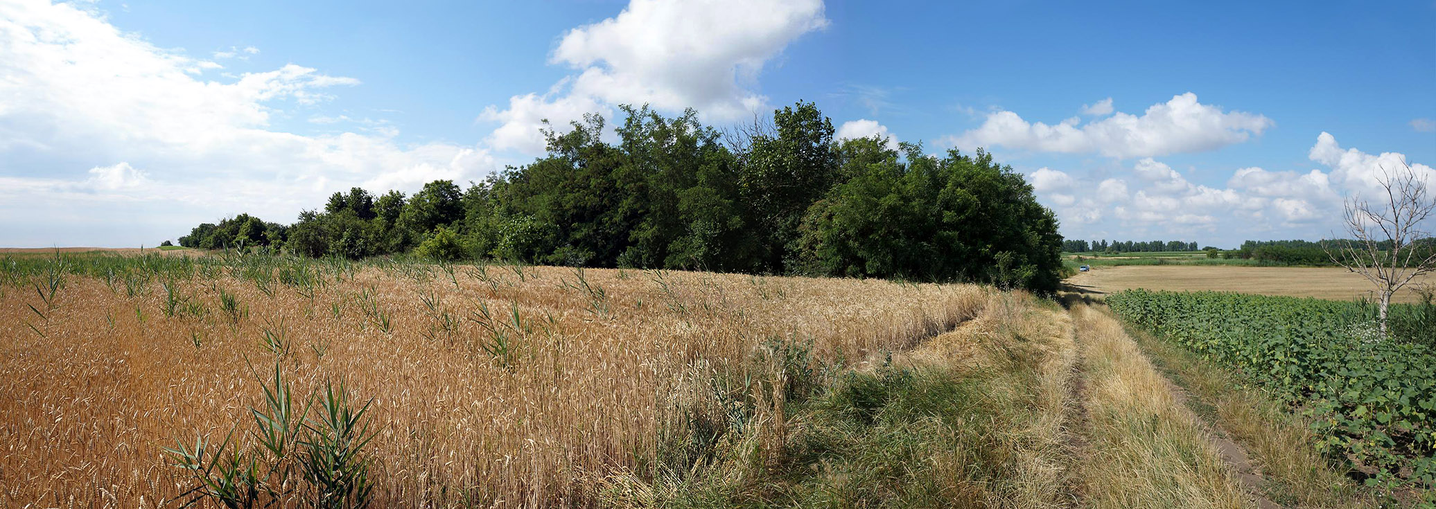 Remains of earthen fortification of Galad, 9th century